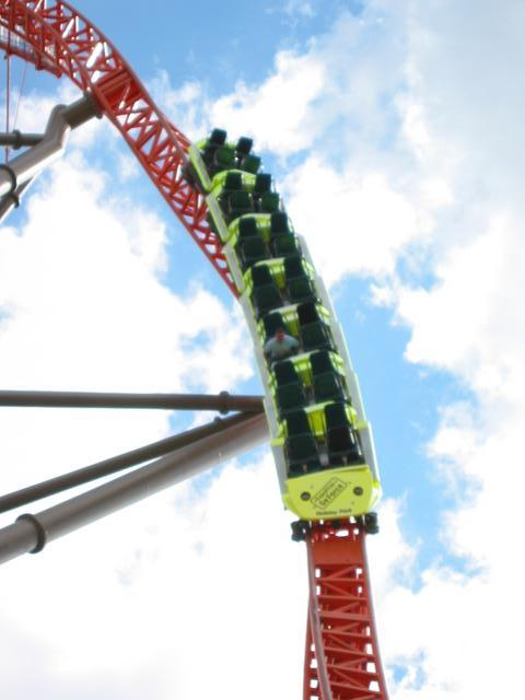 Richard Rodriguez at his world-record-attempt on Expedition GeForce in 2003